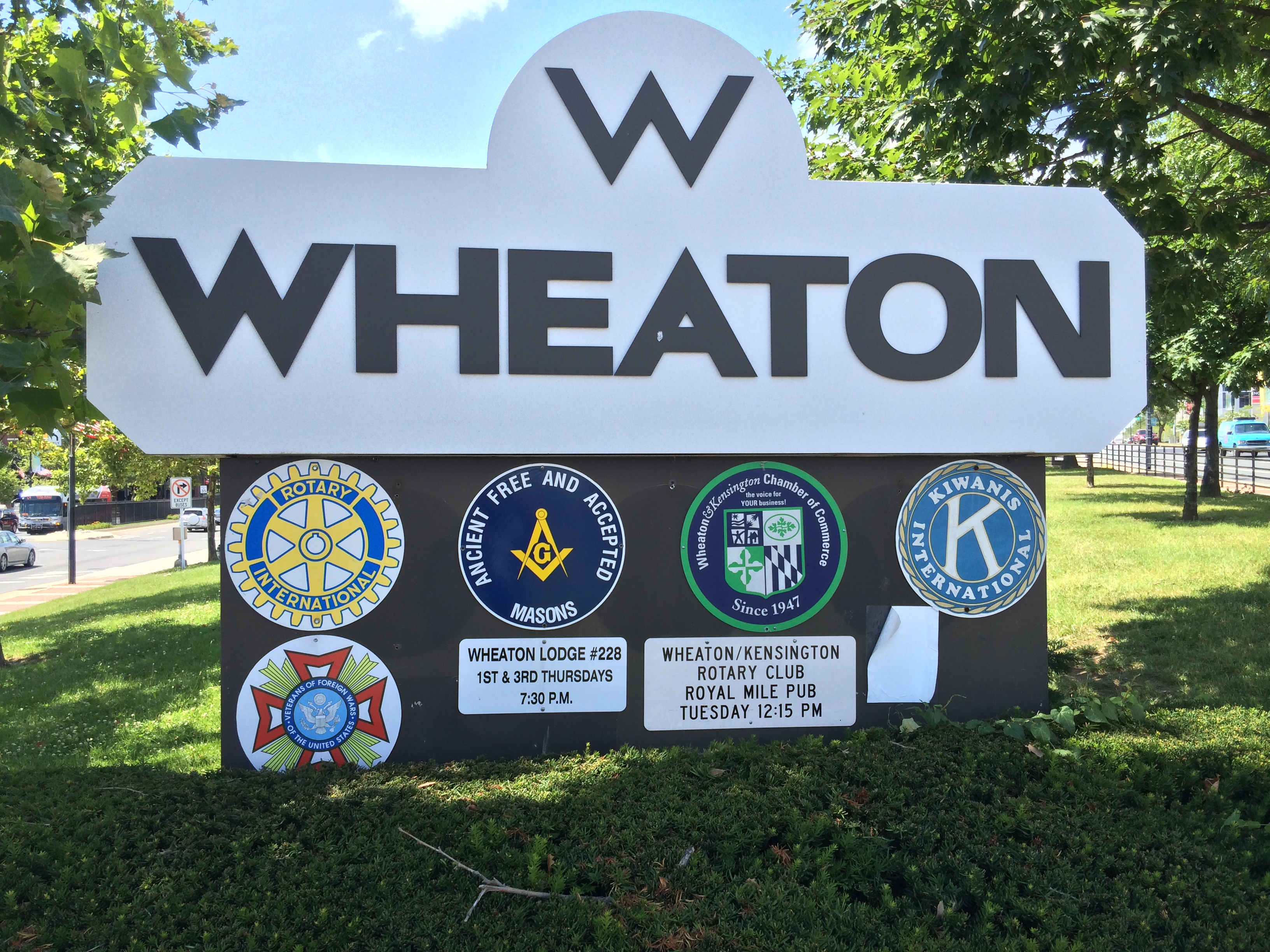 The welcome sign on Georgia Avenue and Veirs Mill Road at the entrance to downtown Wheaton, Maryland.